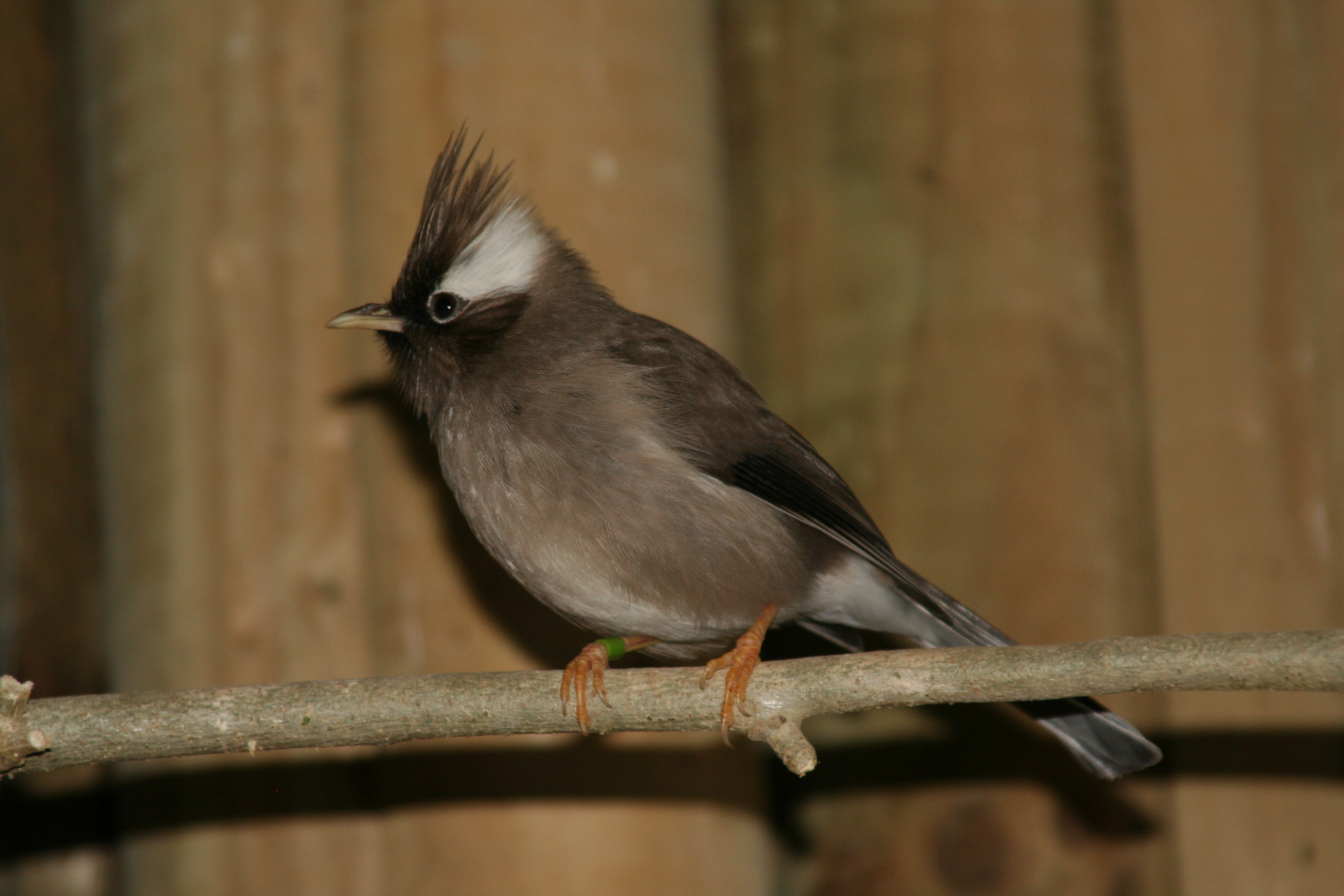 A White-collared Yuhina (Yuhina diademata).